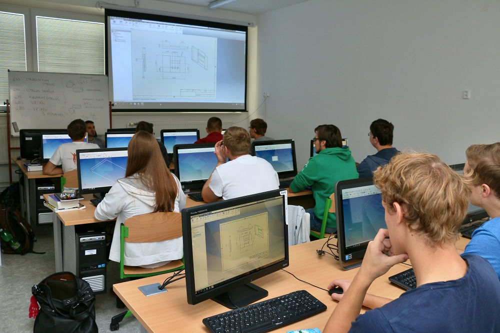 Secondary Technical School of Mechanical Engineering in Olomouc, technical drawing lesson in a computer classroom.